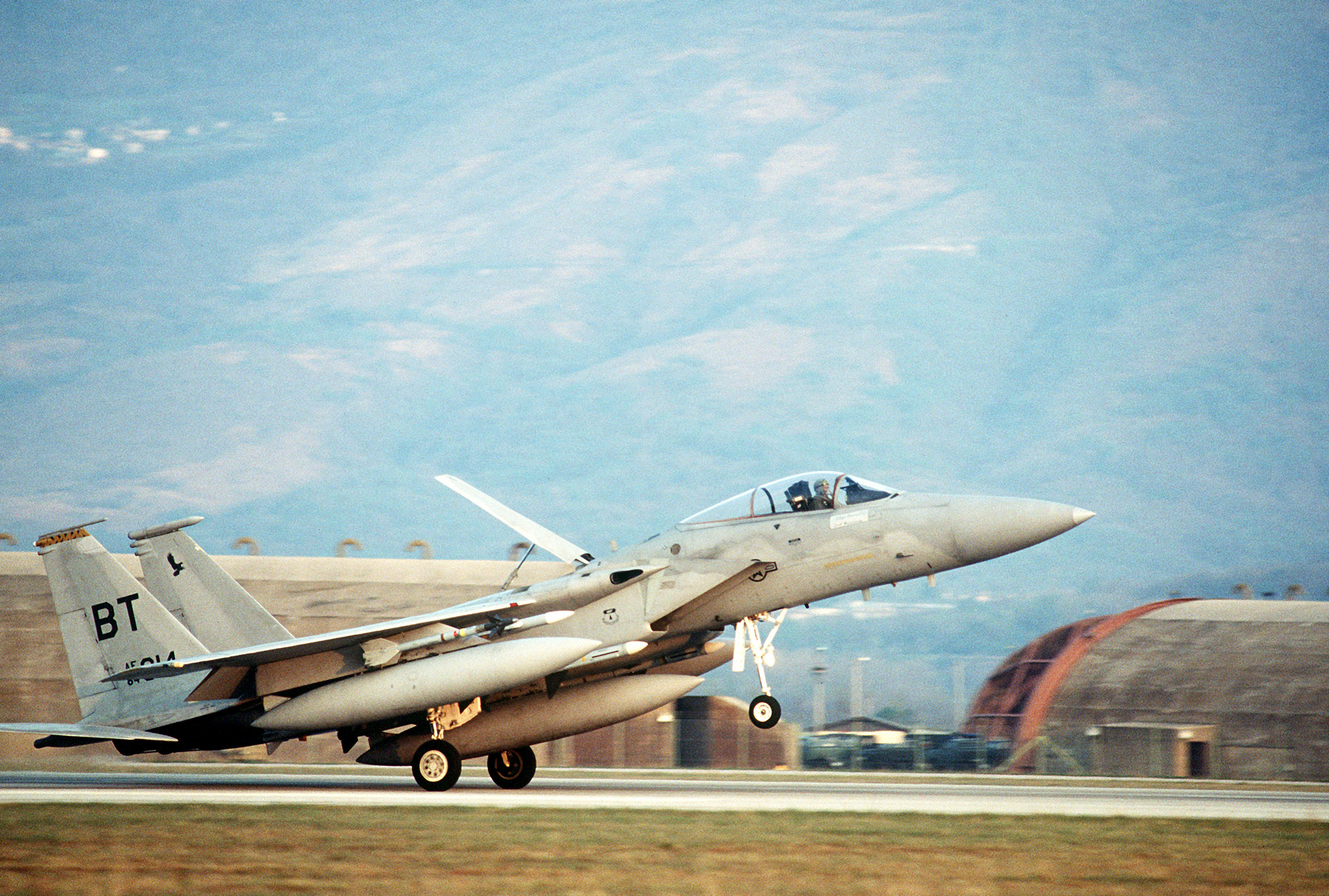 A 53rd Fighter Squadron F-15C Eagle aircraft returns to base after a mission during Operation Deny Flight, the enforcement of the United Nations-sanctioned no-fly zone over Bosnia and Herzegovina.